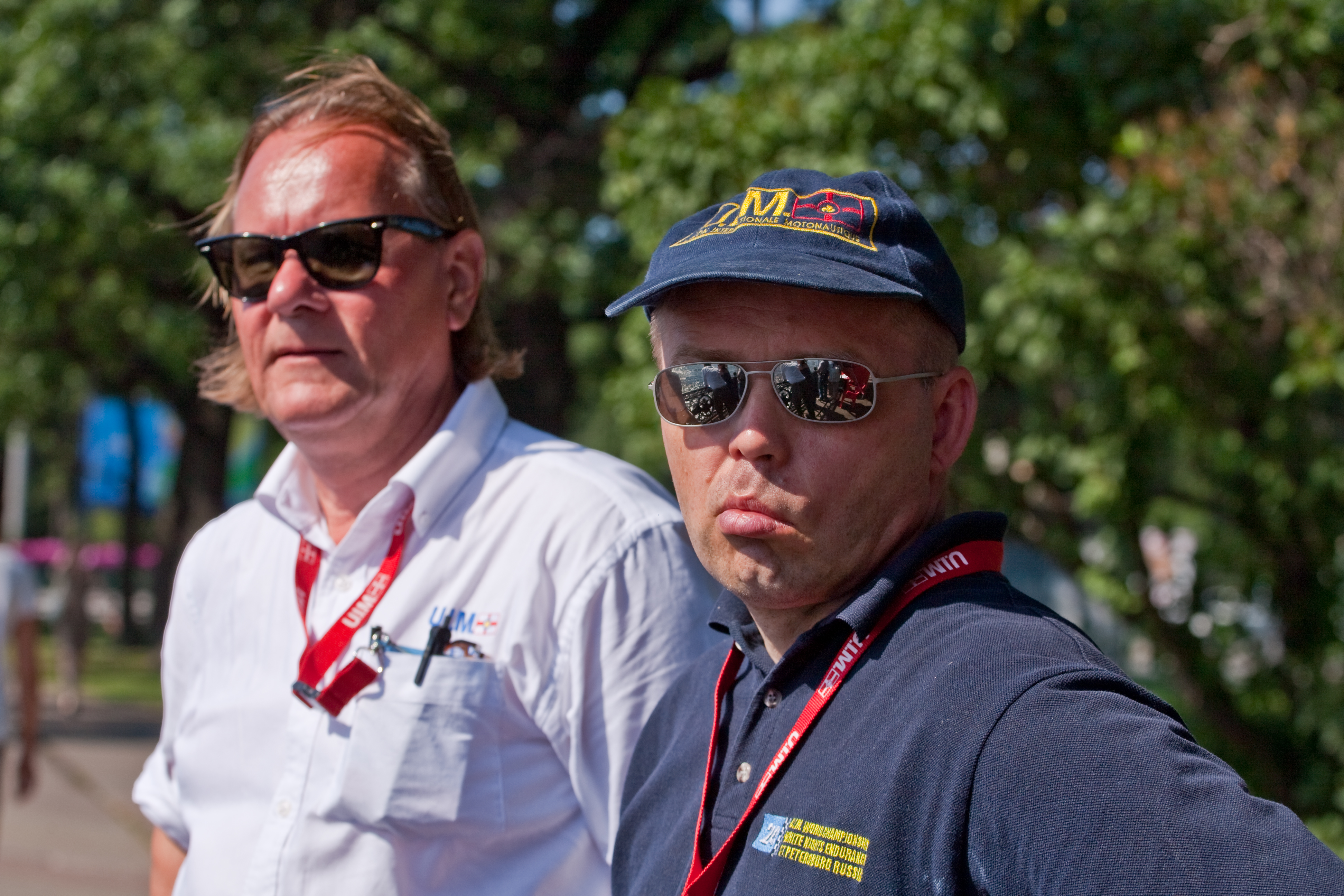 Пылаев П.А.